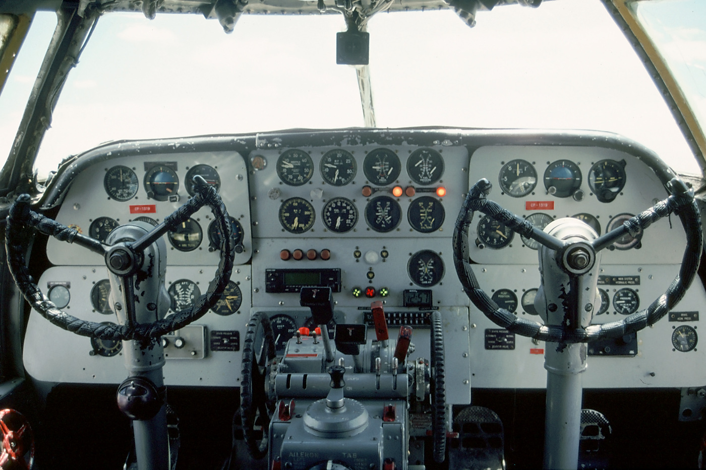 C-46F CP-1319 of Camba Ltd. La Paz El Alto Airport, October 1997. This Commando was test running an engine. When the crew noticed me taking photos I was invited on board and into the cockpit.